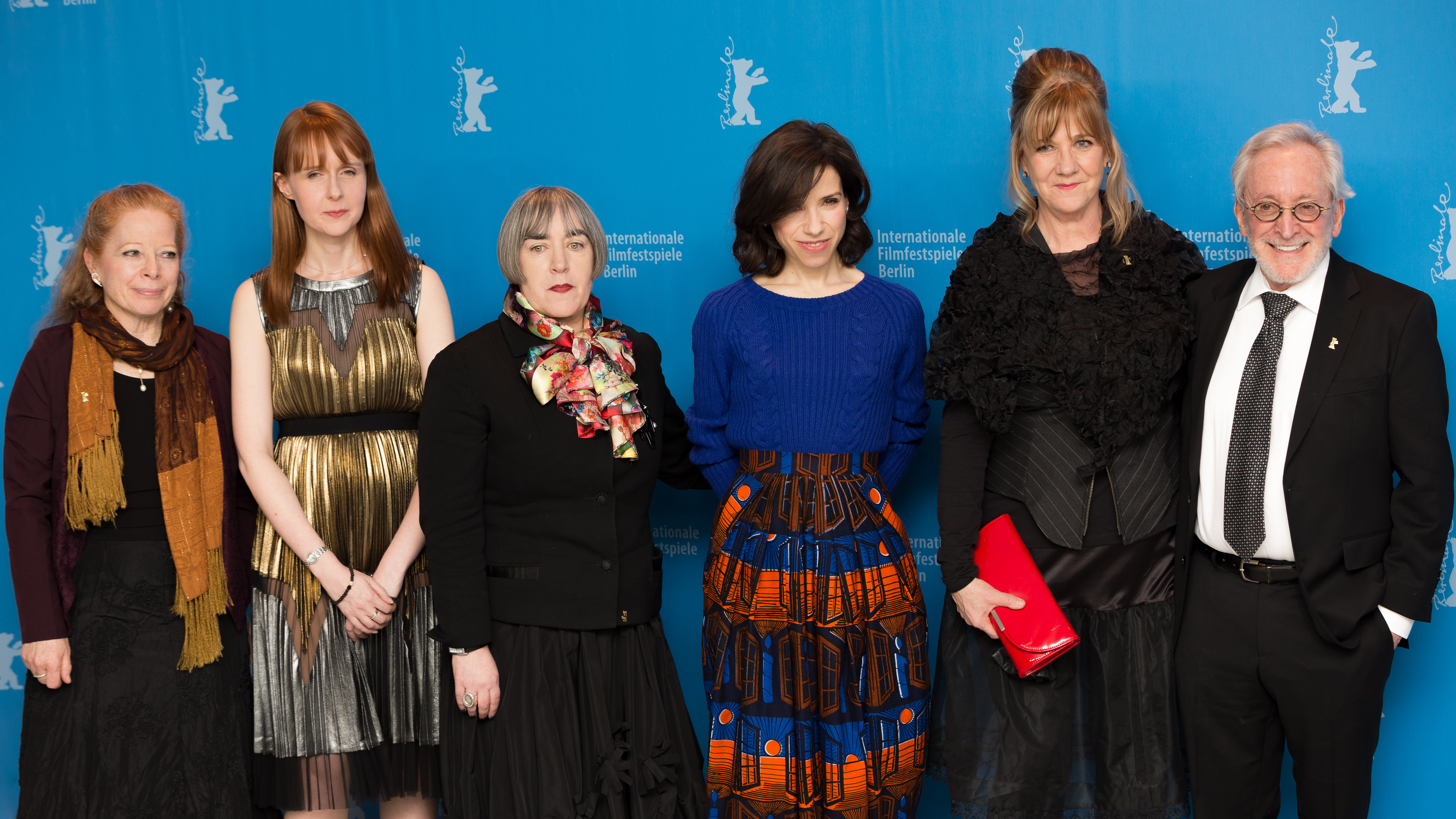 The producers Heather Haldane and Susan Mullen, director Aisling Walsh, actress Sally Hawkins, and the producers Mary Young Leckie and Bob Cooper at the presentation of the movie Maudie at the Berlinale 2017